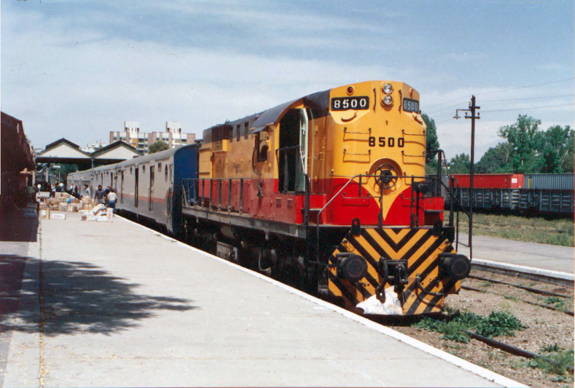 El Aconcagua service operated by Ferrocarriles Argentinos in Mendoza station, about to departure to San Juan. That train ran from Retiro to San Juan on Ferrocarril San Martín tracks.